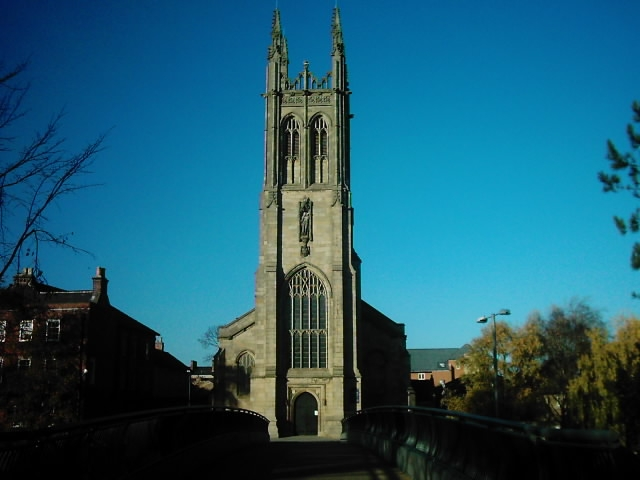 Derby A better photo than the last one i did of the same location. Here is Saint Marys Catholic Church taken from the other side of the footbridge over Saint Alkmunds Way (A601). Photo Taken: 23/10/07